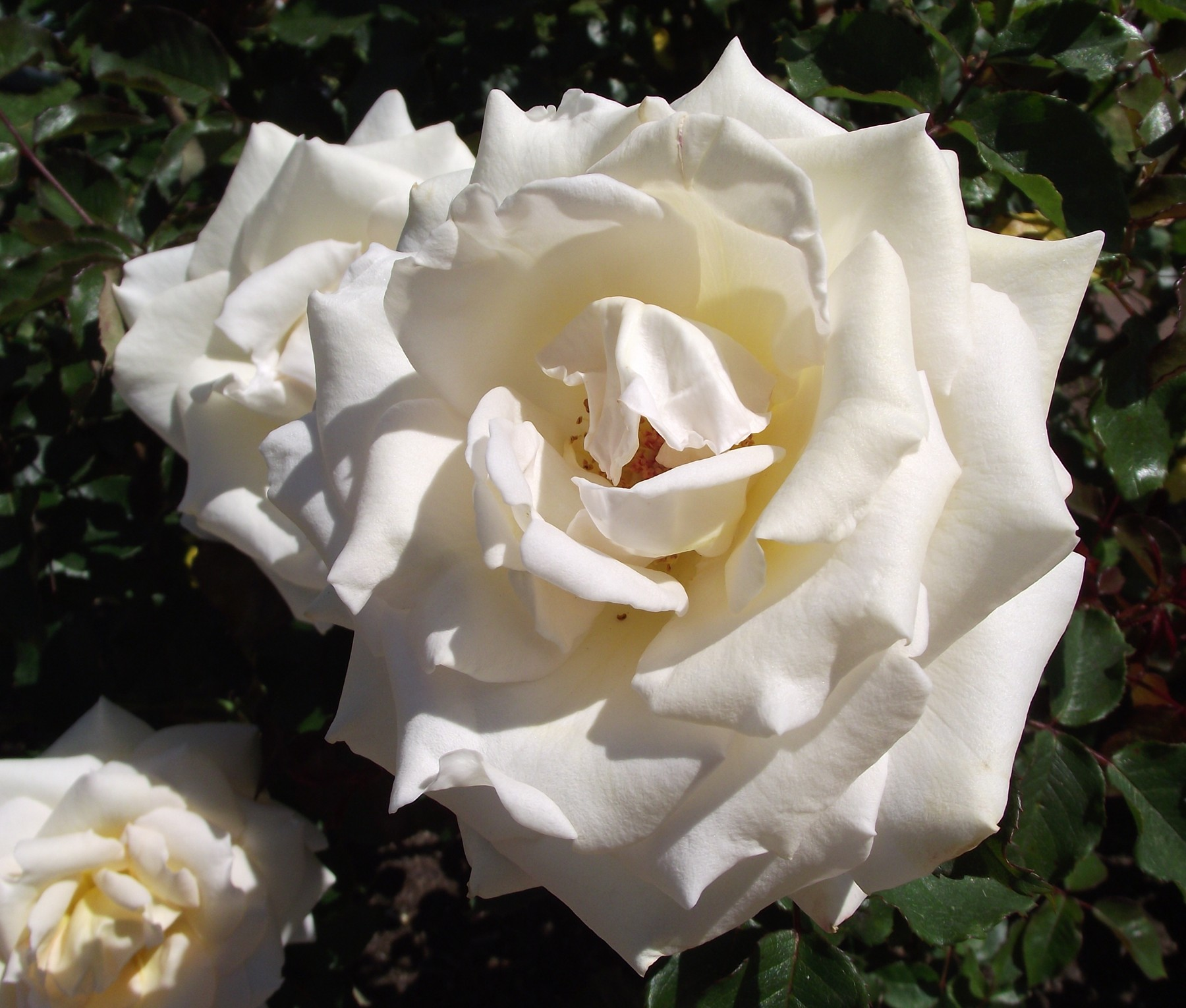 Rosa 'Whisper' in the Inez Grant Parker Memorial Rose Garden, Balboa Park, San Diego, California, USA.